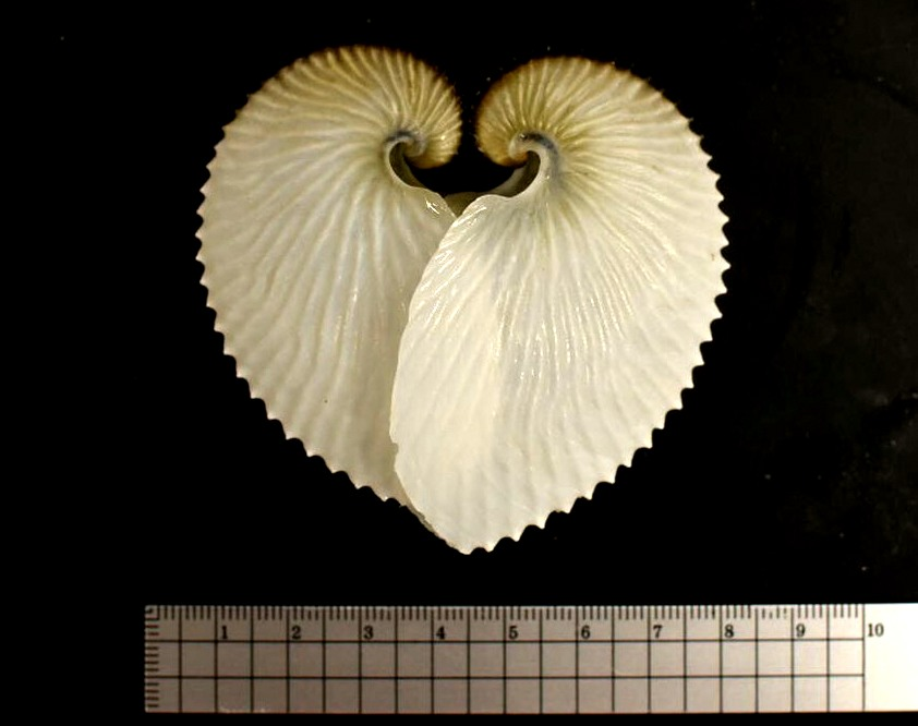 The mark of Asarum caulescens leaves made of Argonauta argo shells. In japan, paper nautilus shell is called "Aoi-gai" which means Shell of Asarum caulescens. Shell is caught in the waters around Oki Islands.